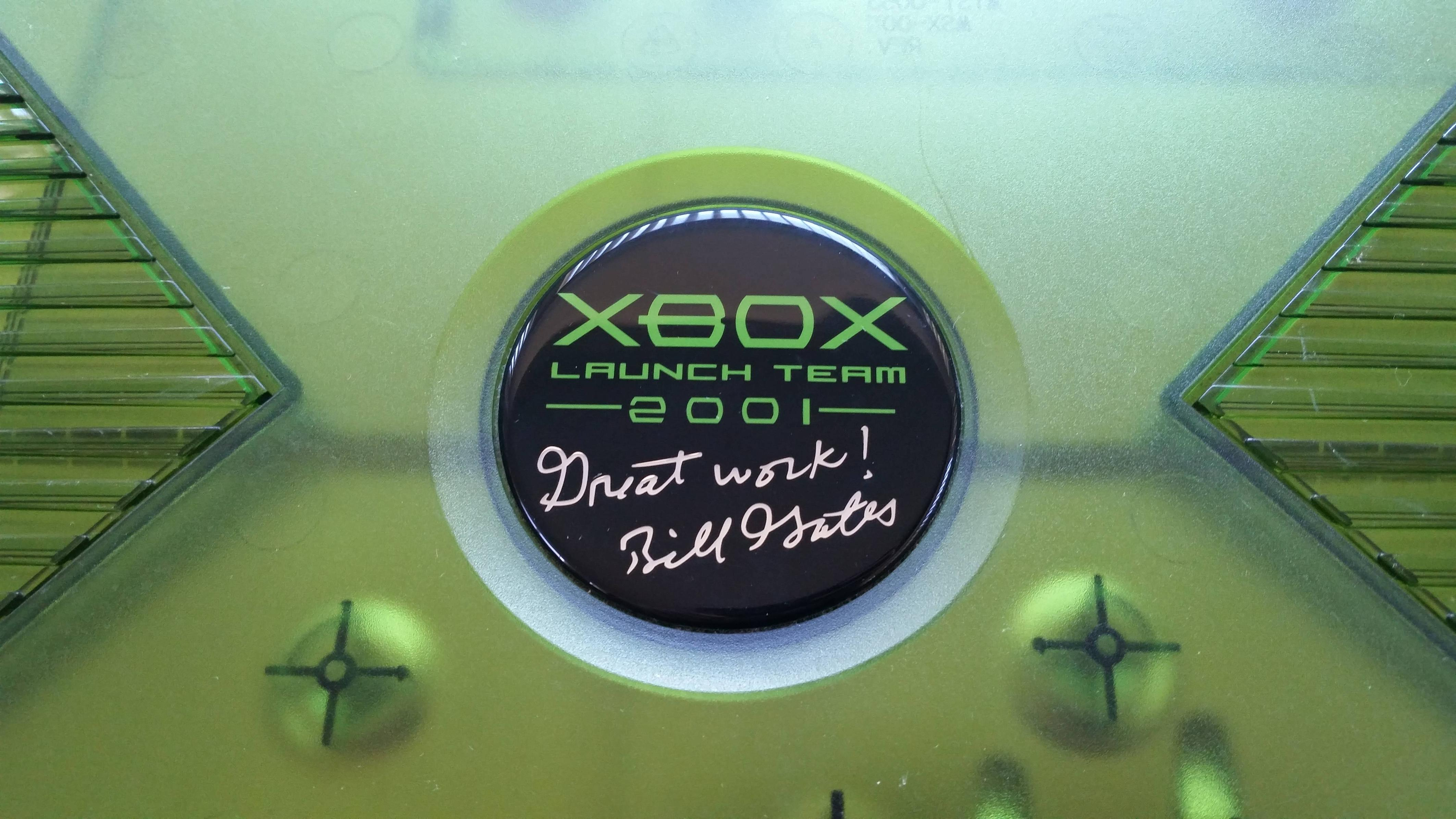 View of the top "jewel" on a 2001 Launch Team Edition original Xbox